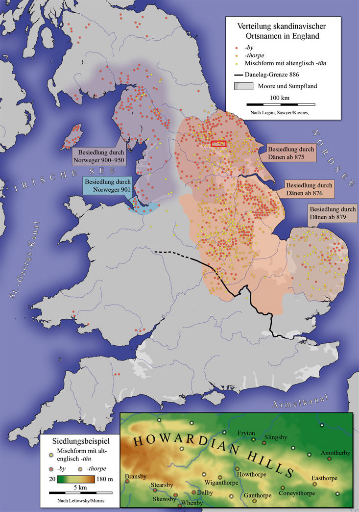 Scandinavian place names in England.